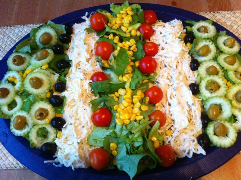 Salade algérienne